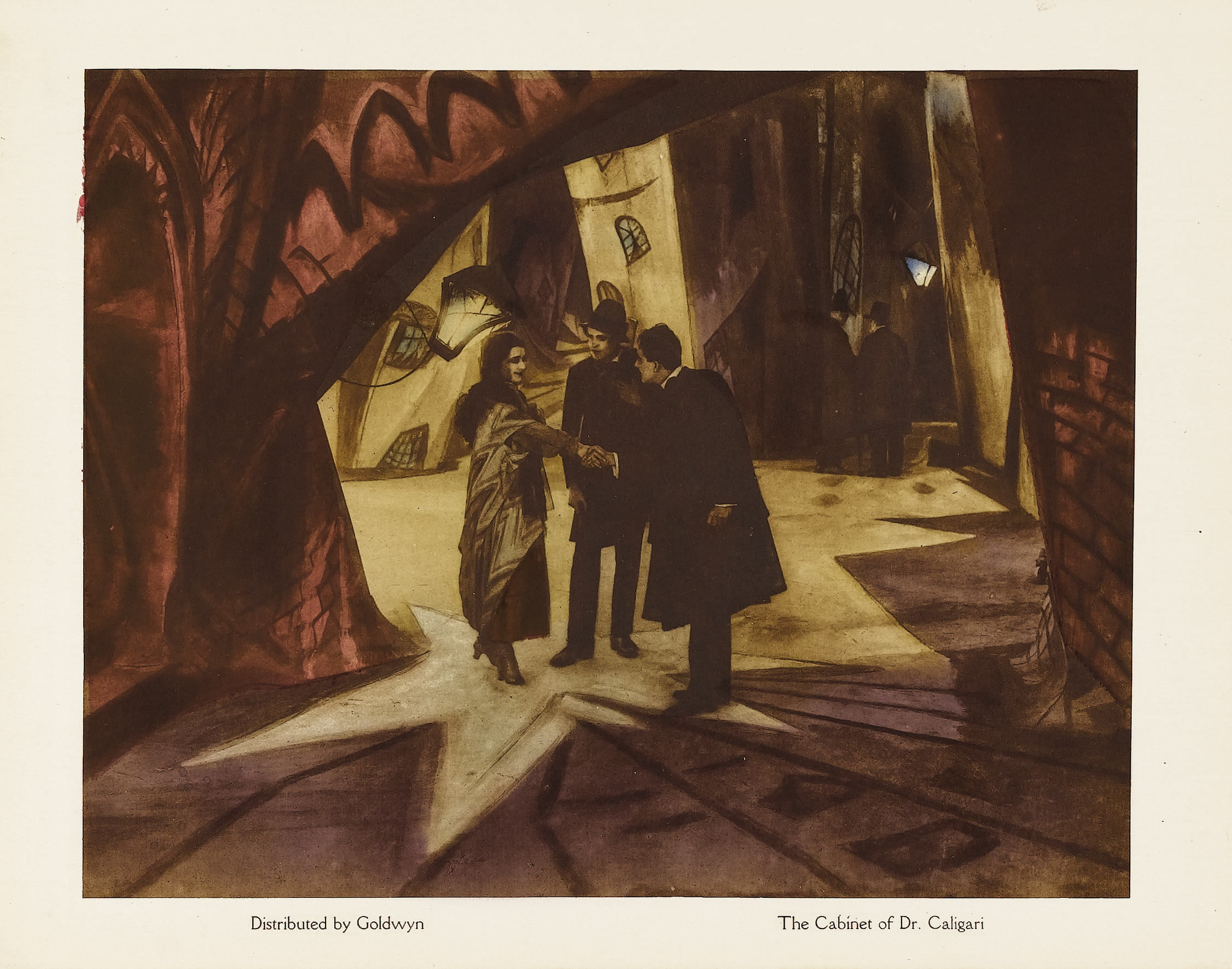 Lobby card